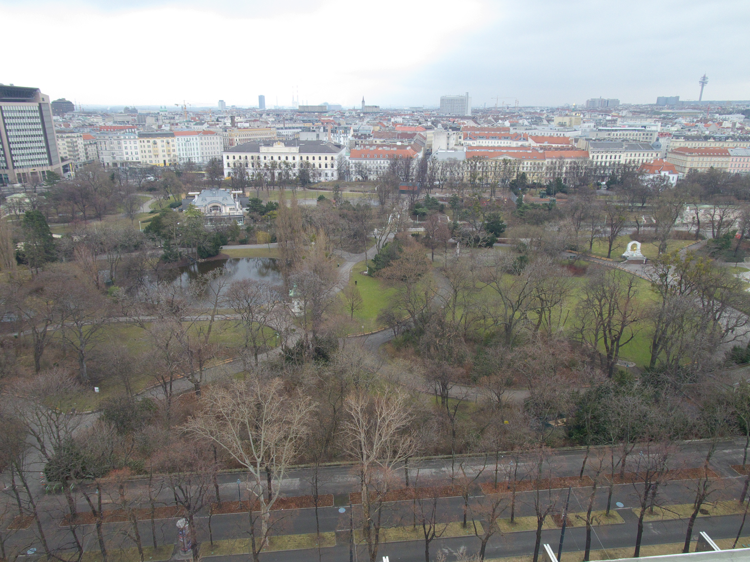 View from the Gartenbau building over the Stadtpark in Vienna.